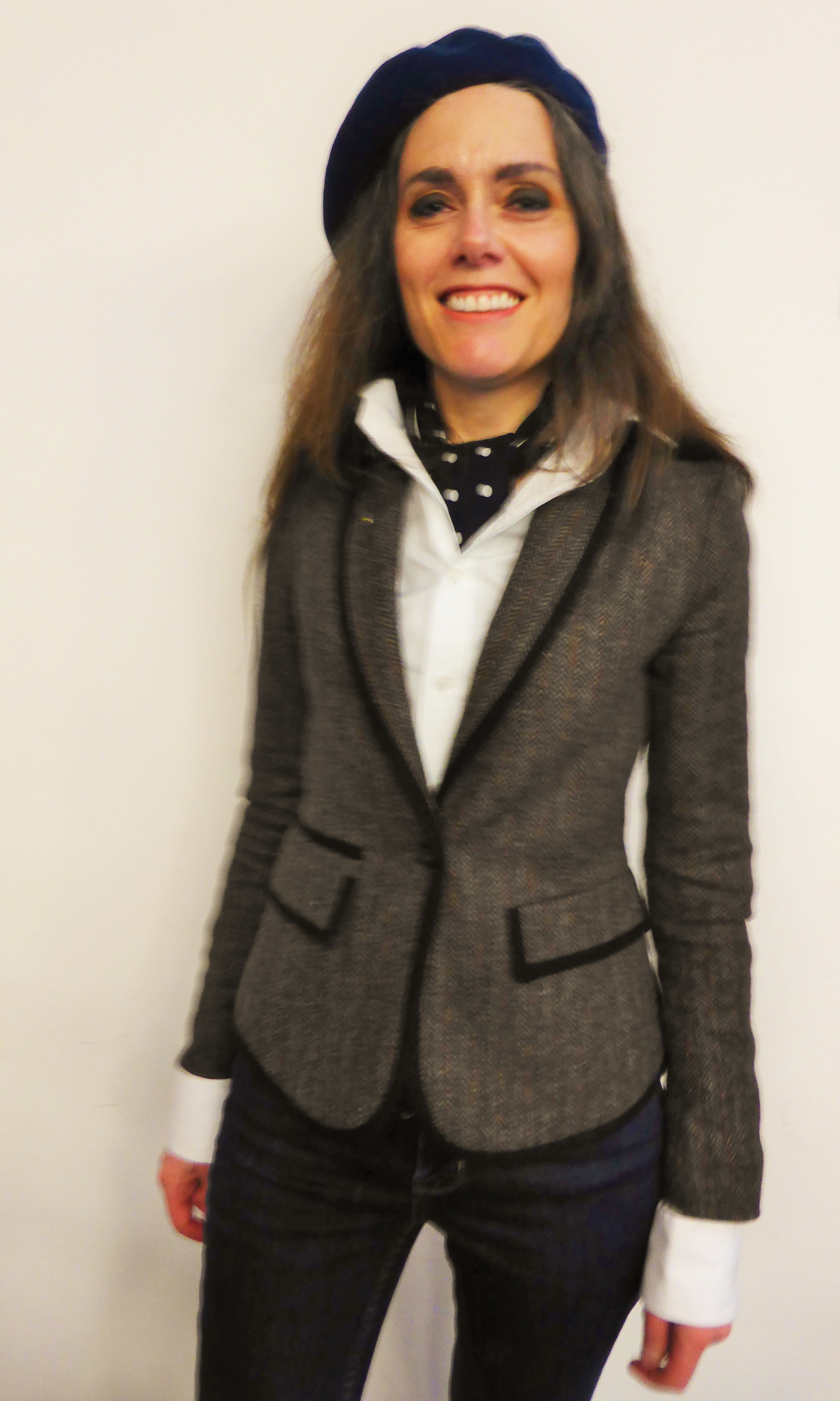 Professor Susan Deacy